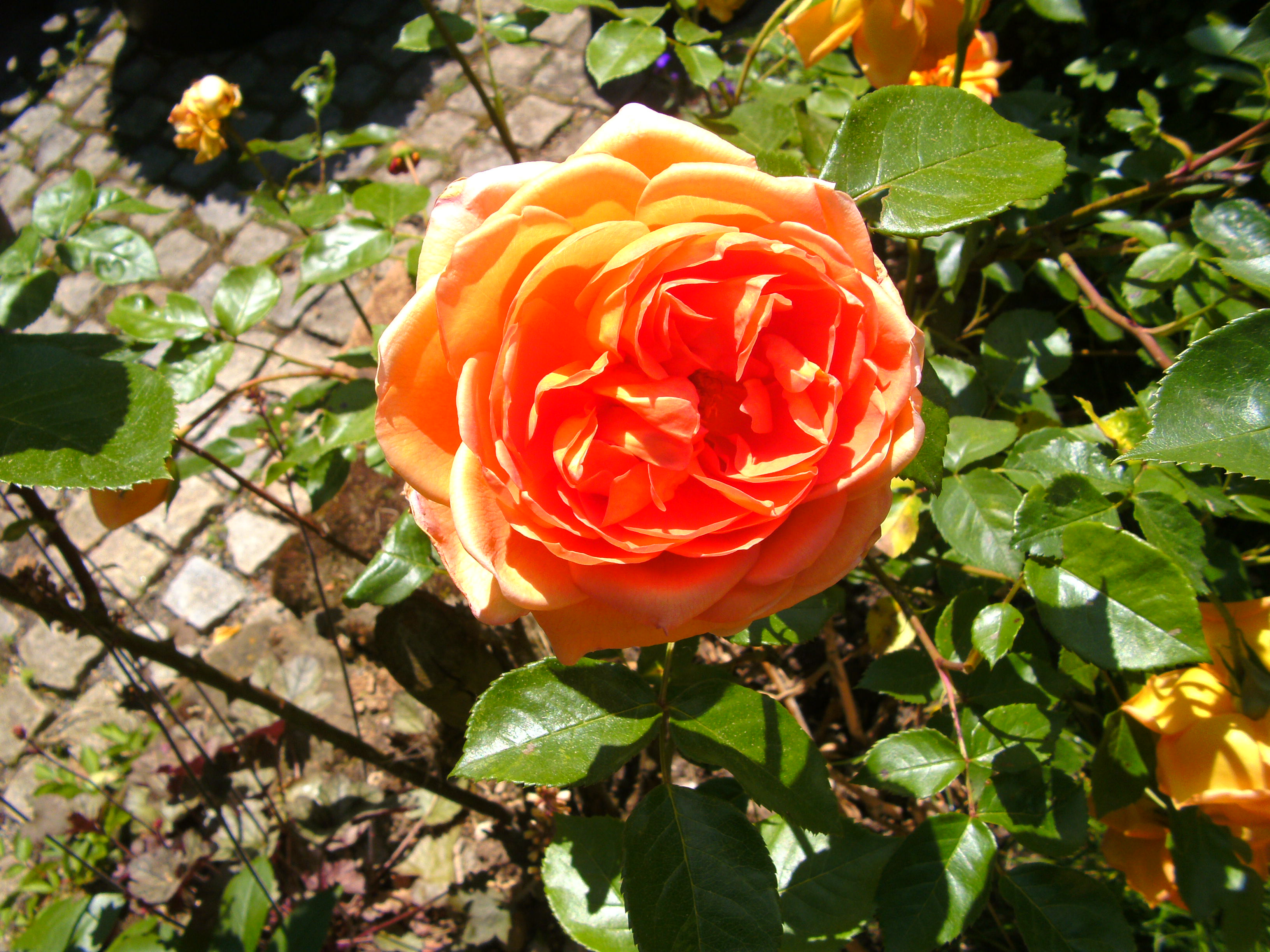 Rosa "Pat Austin"